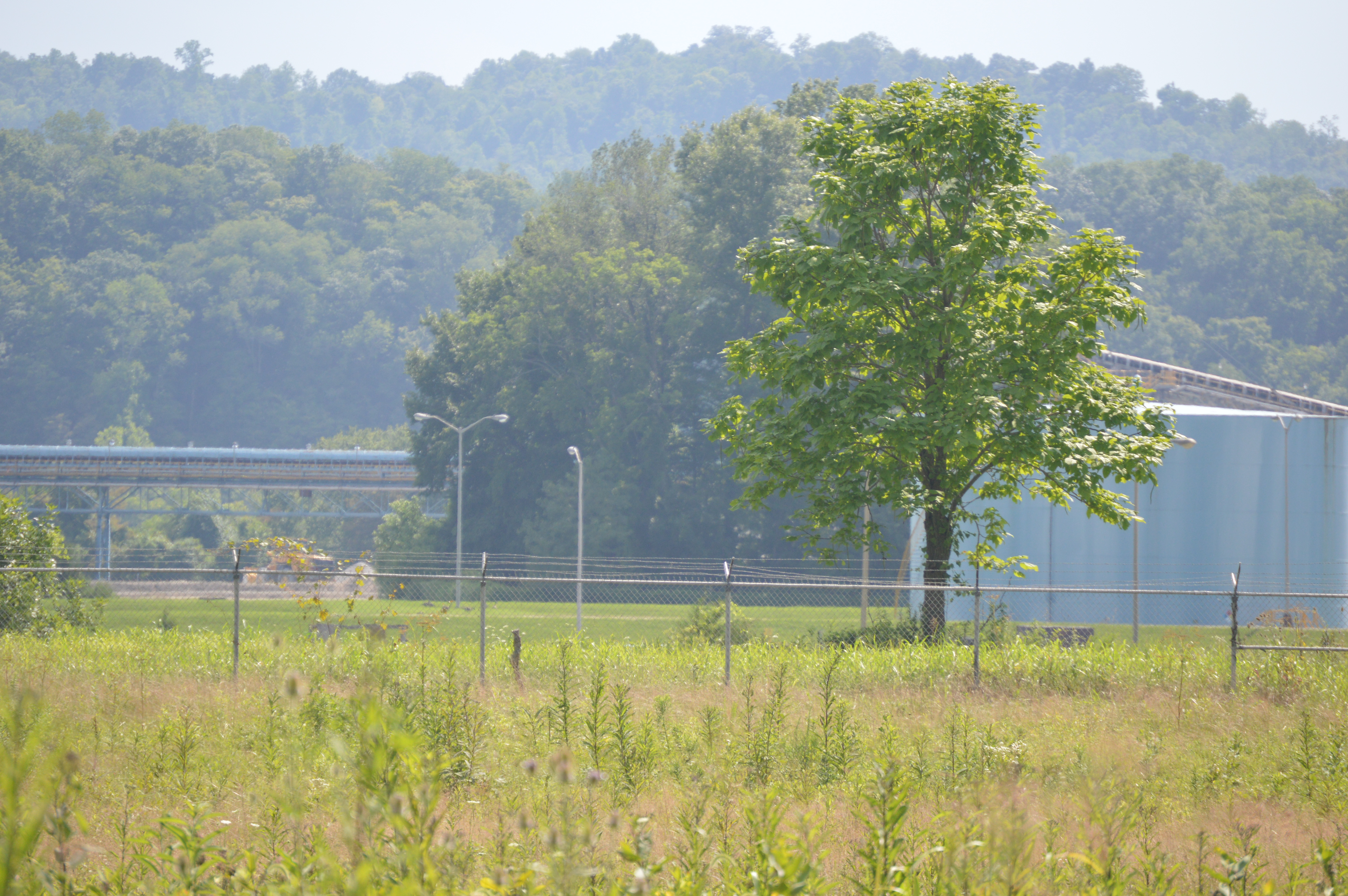 Distant view of the Dayton Power and Light Company Mound (the clump of trees behind the isolated tree), seen looking south from U.S. Route 52 in Monroe Township, Adams County, Ohio, United States. The Adena mound is an archaeological site and has been listed on the National Register of Historic Places.